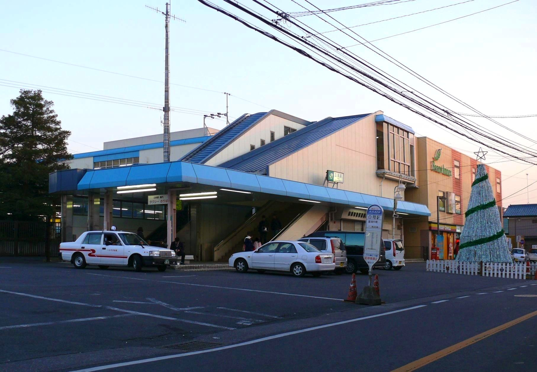 East Japan Railway Siraoka StationWestward exit.